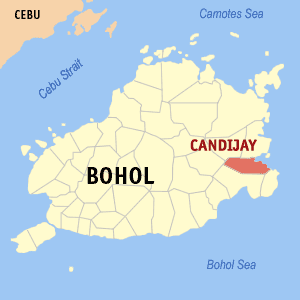 Map of Bohol showing the location of Candijay